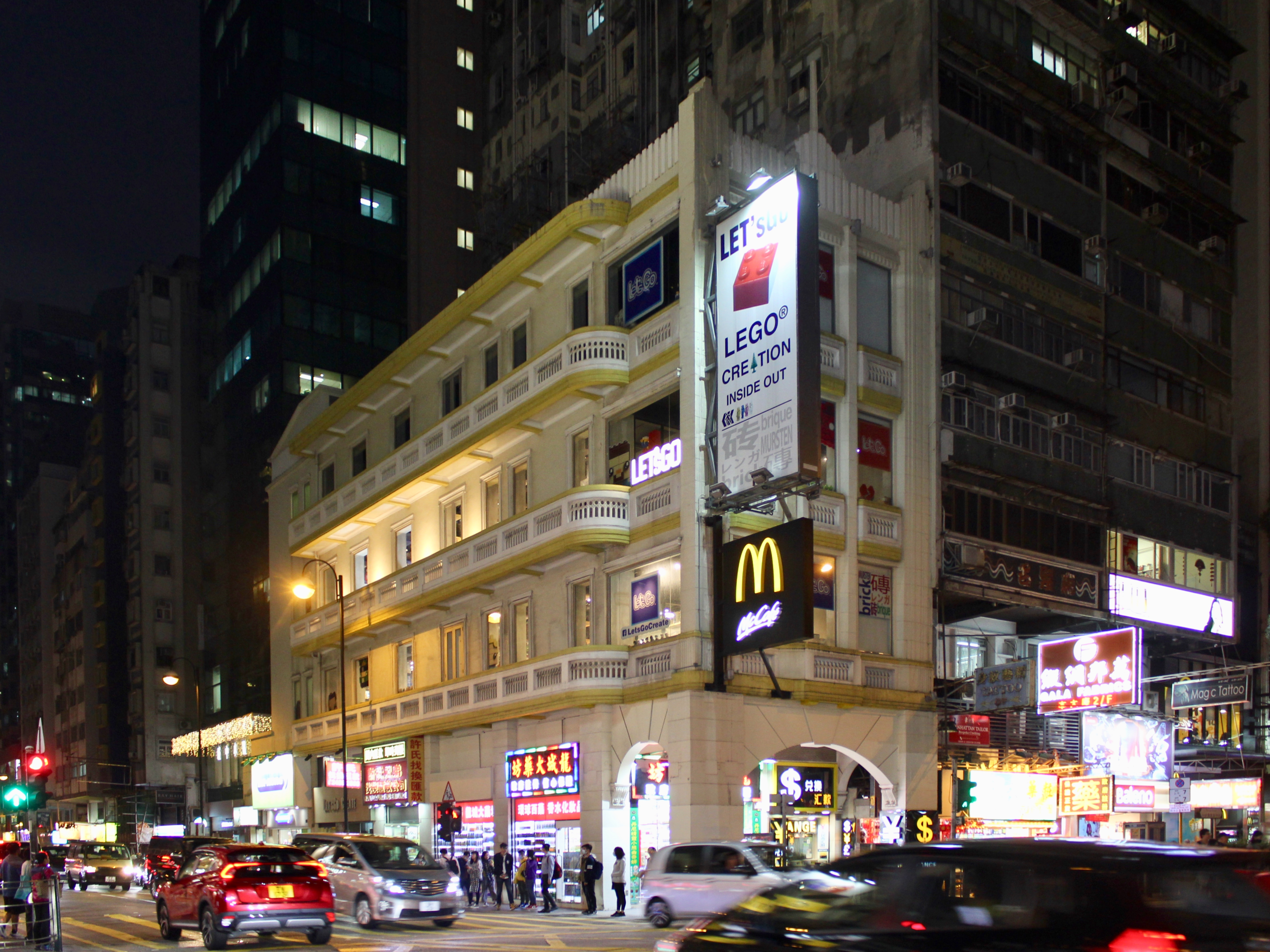 190 Nathan Road is a tenement house located at the intersection of Nathan Road and Austin Road, it was listed as a Grade III Historic Building in 2018.